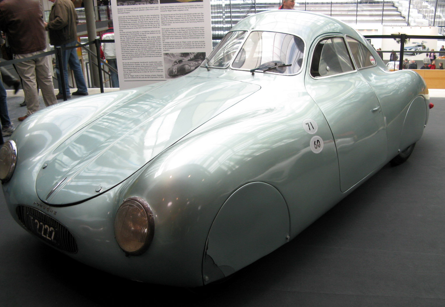 1939 Porsche Type 64 Berlin-Rome-car